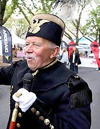 Ernst Peter Berghaus